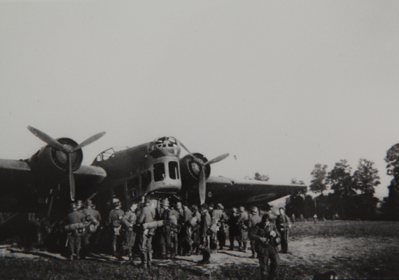 Catalog #: 00074861 Manufacturer: Amiot Designation: 143